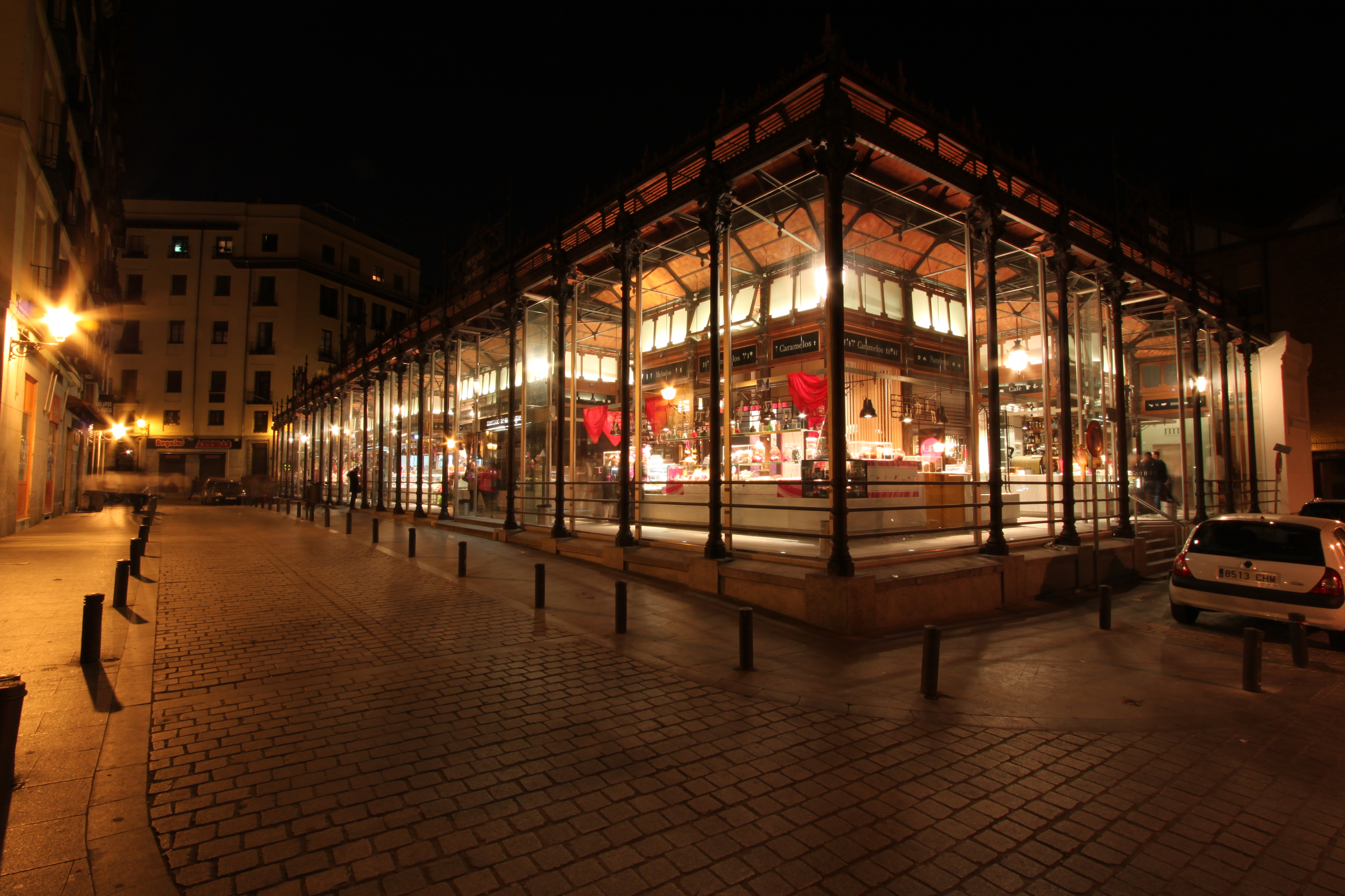 Mercado de San Miguel (a market) in Madrid (Spain).